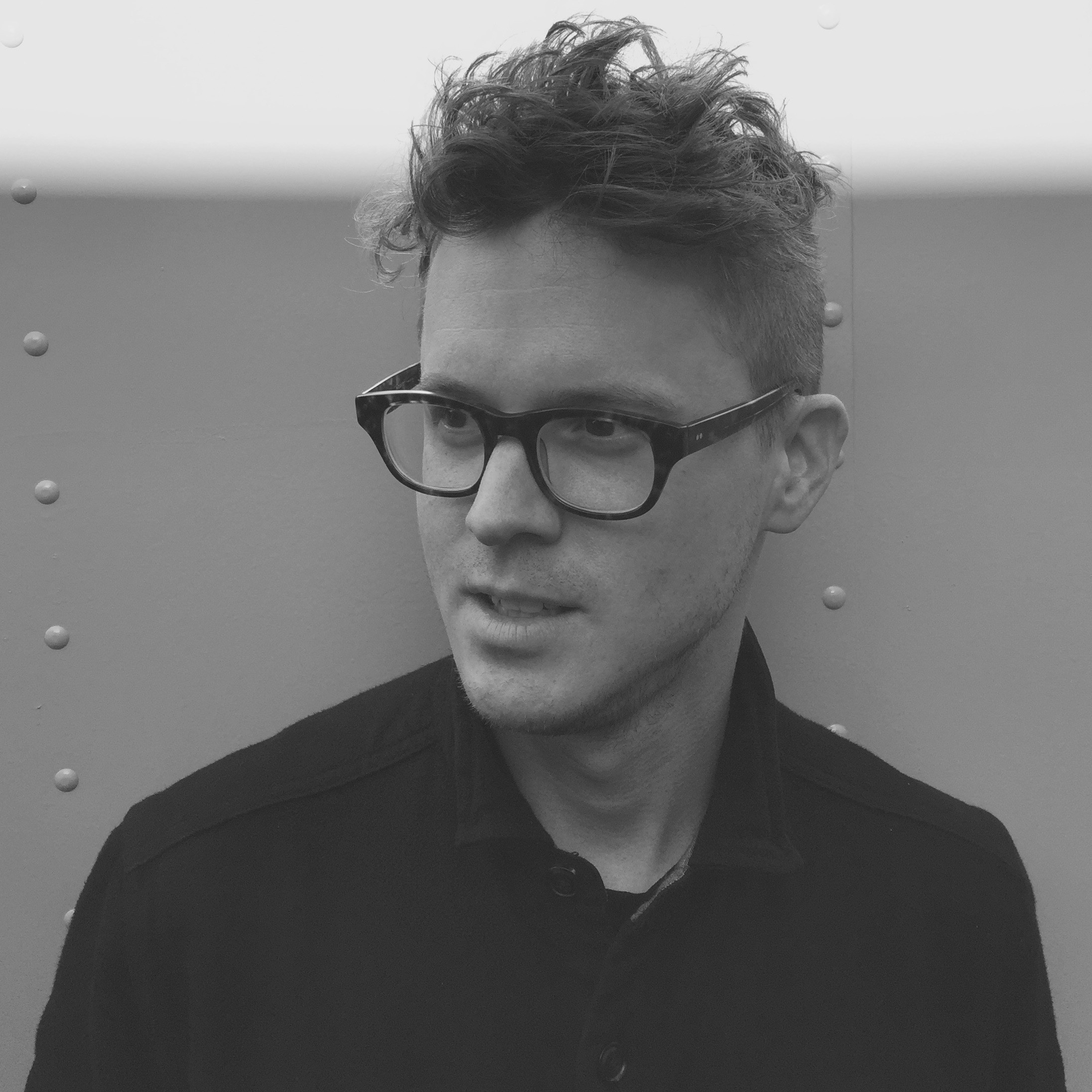 Ryan Lott in Indianapolis in 2016